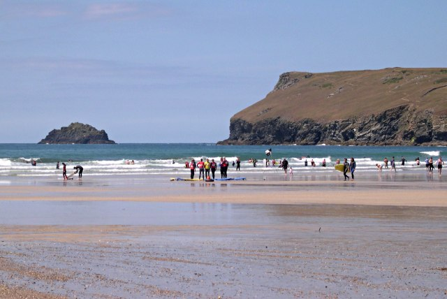 Polzeath Beach This is a popular place for surfers but at low tide is a long way from the beach front.